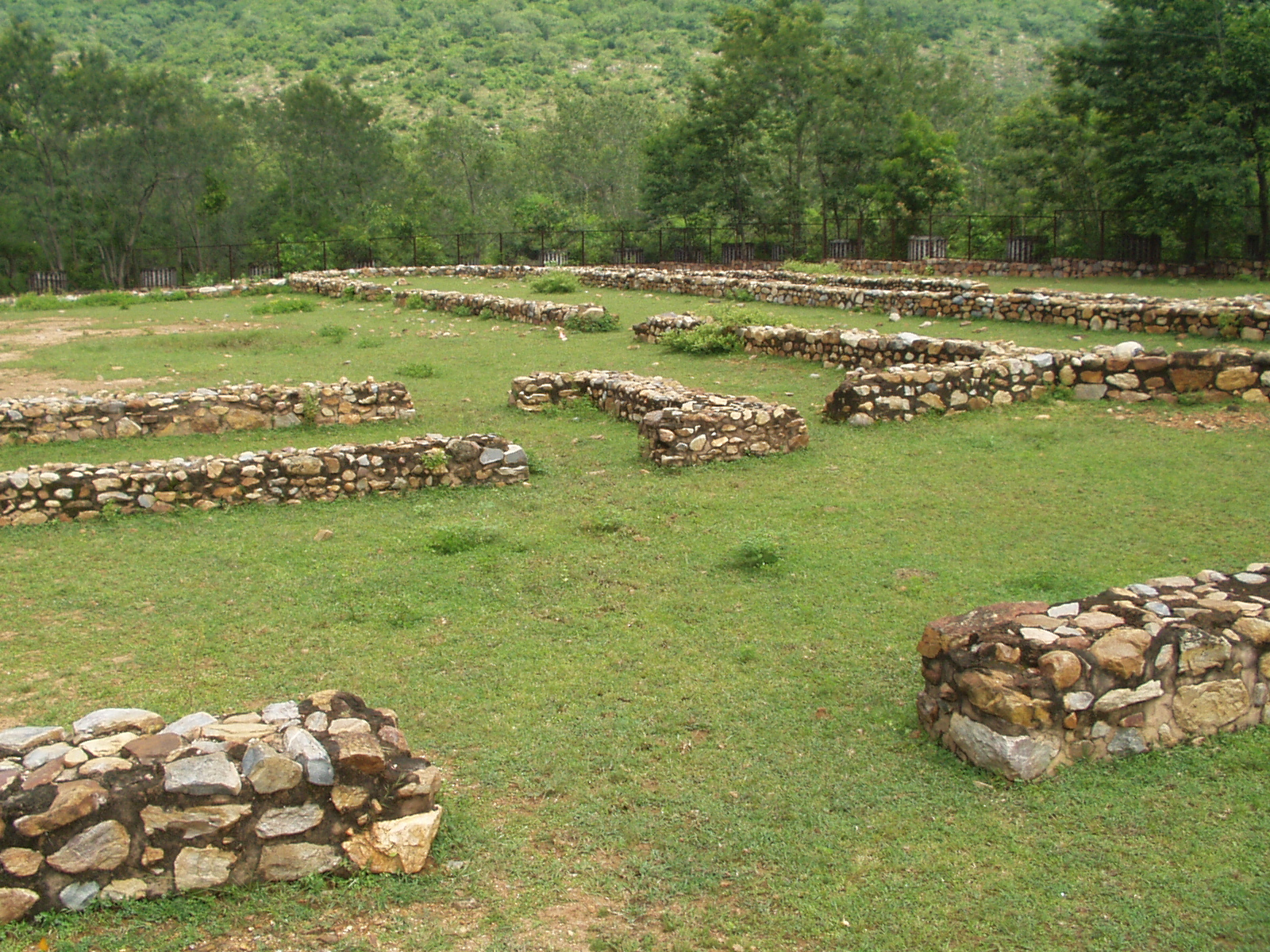 Ruins of Jivakarama Vihara at the Mango Grove (Ambavana) in the old Rajgir, Bihar, India. A present to the buddhist sangha by Jīvaka-Komārabhacca, Bimbisara's doctor.